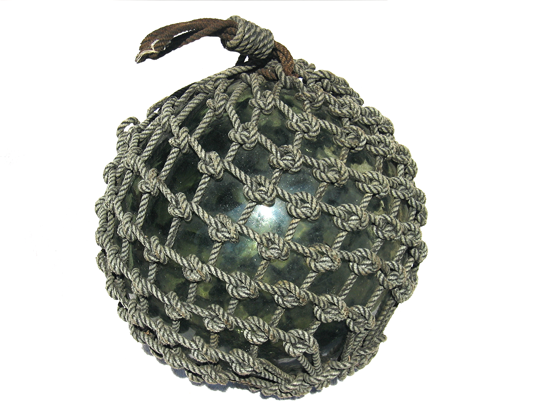 Photo of a 14 inch Japanese glass fishing float with a net.